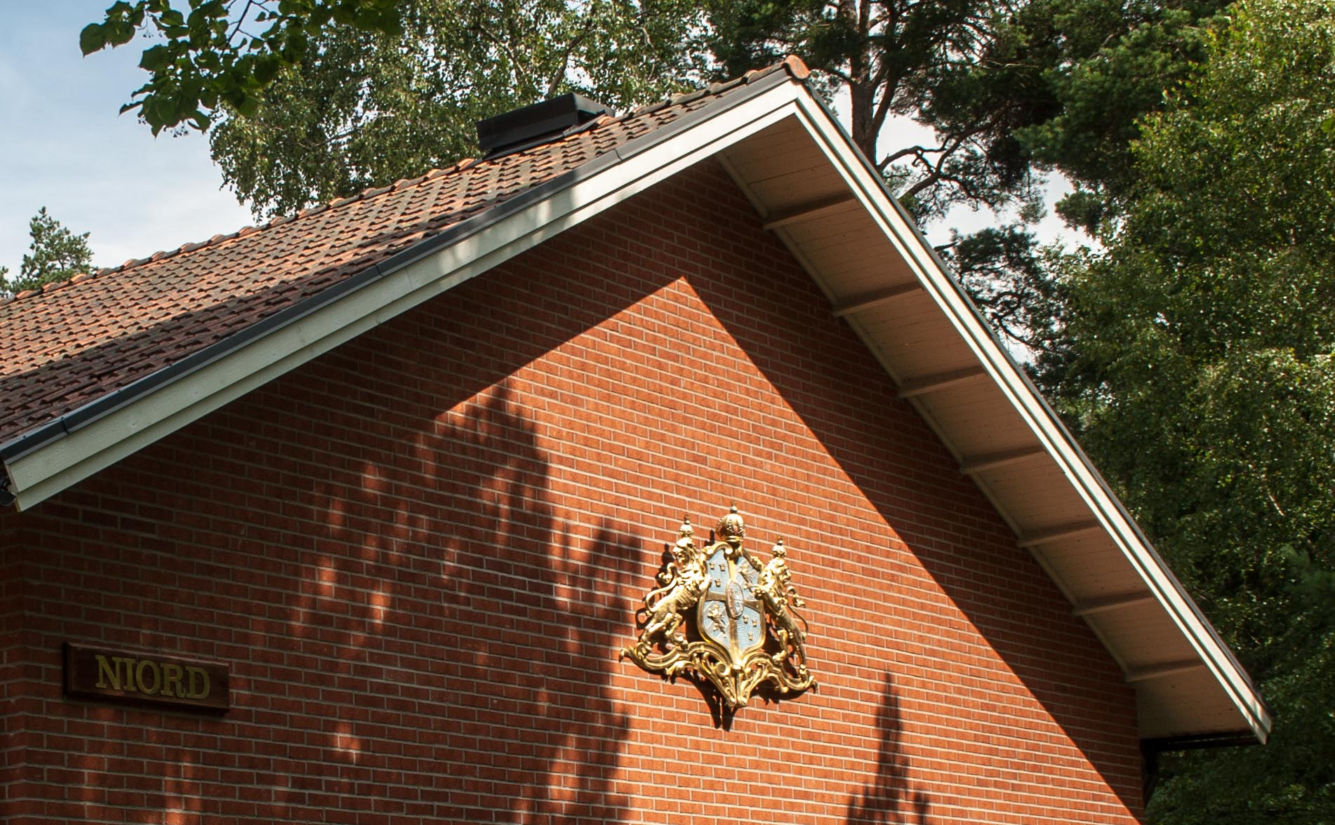 Stern ornament of HMS Niord in Berga navy base